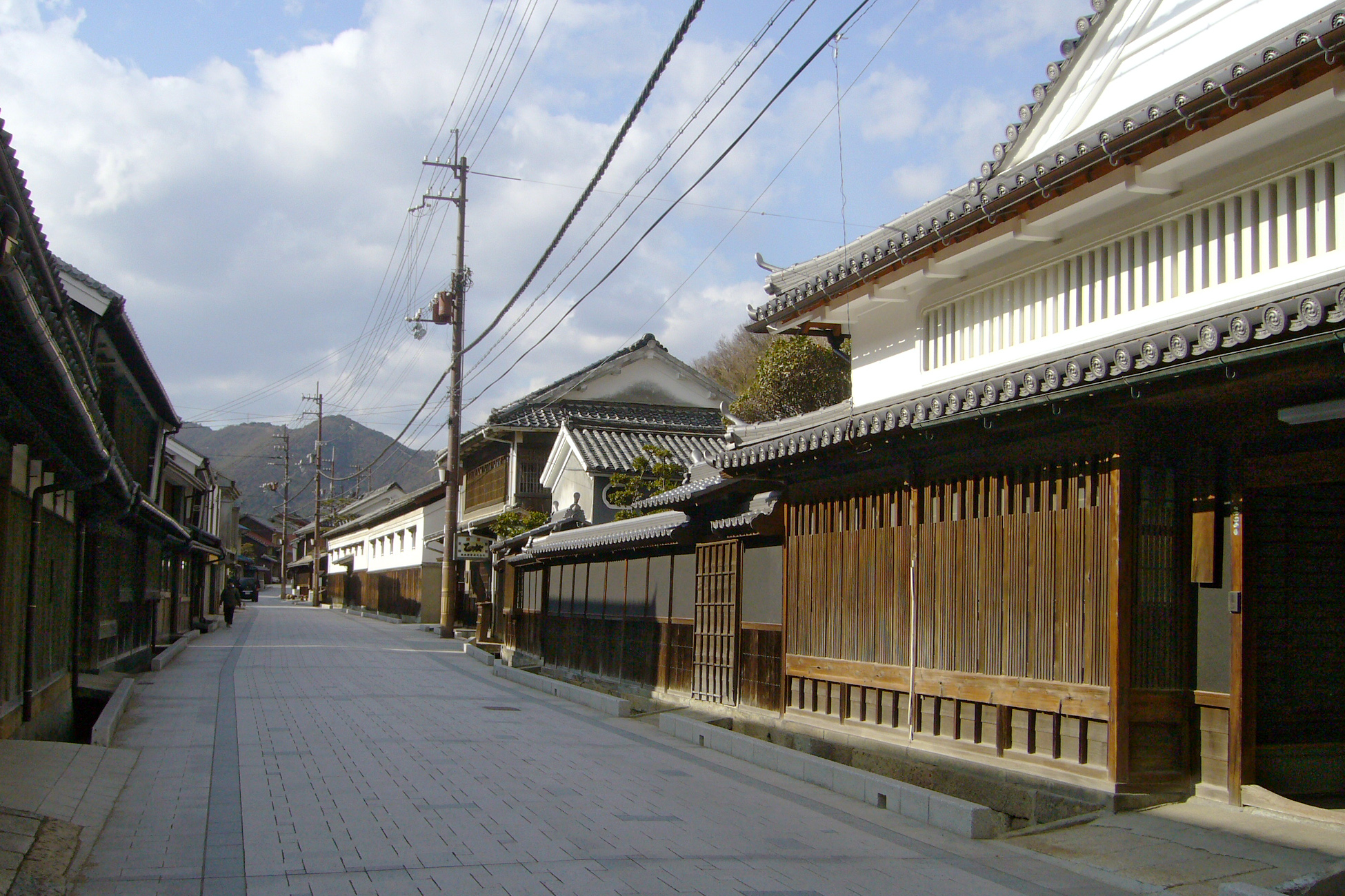 "Daido". The main street of Sakoshi in Ako, Hyogo prefecture, Japan